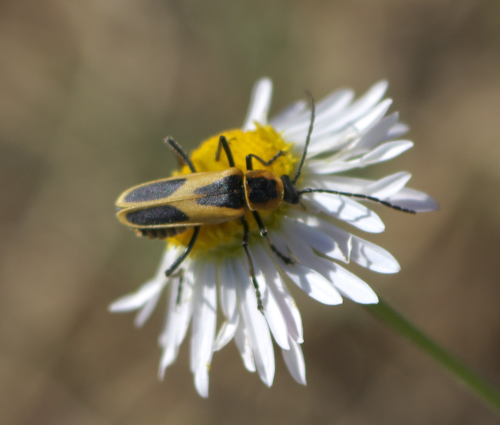 Chauliognathus scutellaris, Family: Soldier Beetles, ID Confidence: 88